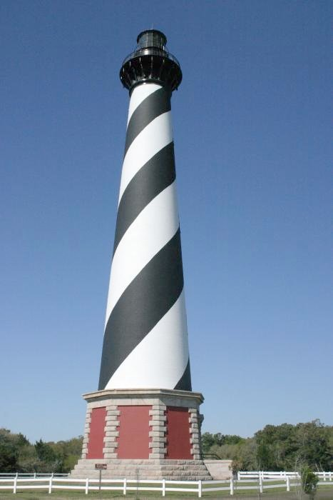 Cape Hatteras Lighthouse